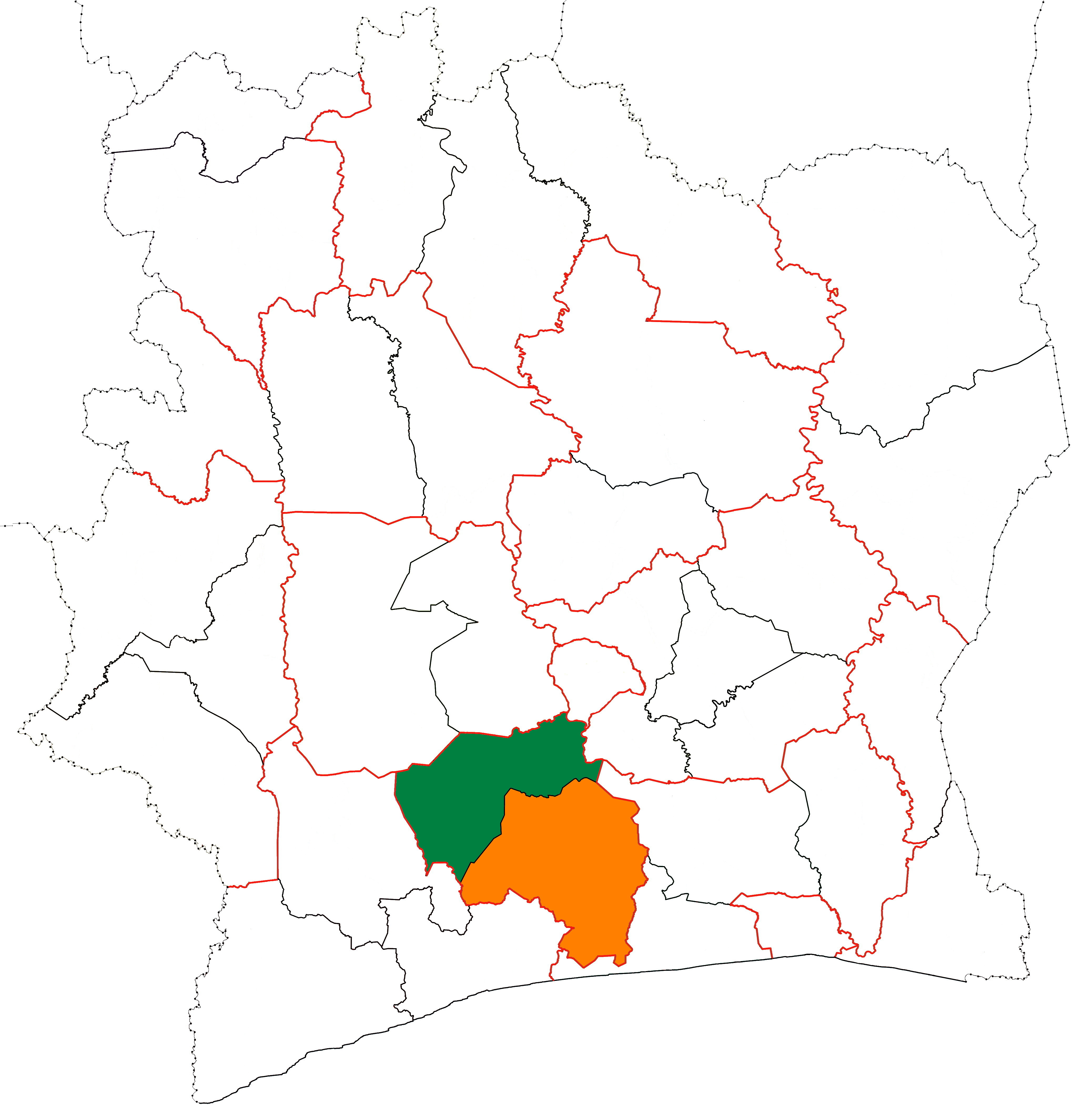 The location of Gôh region (green) in Côte d'Ivoire. The other shaded areas represent the other parts of Gôh-Djiboua District.